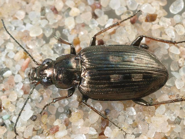 Bembidion argenteolum, location: The Netherlands - along the Waal near Afferden